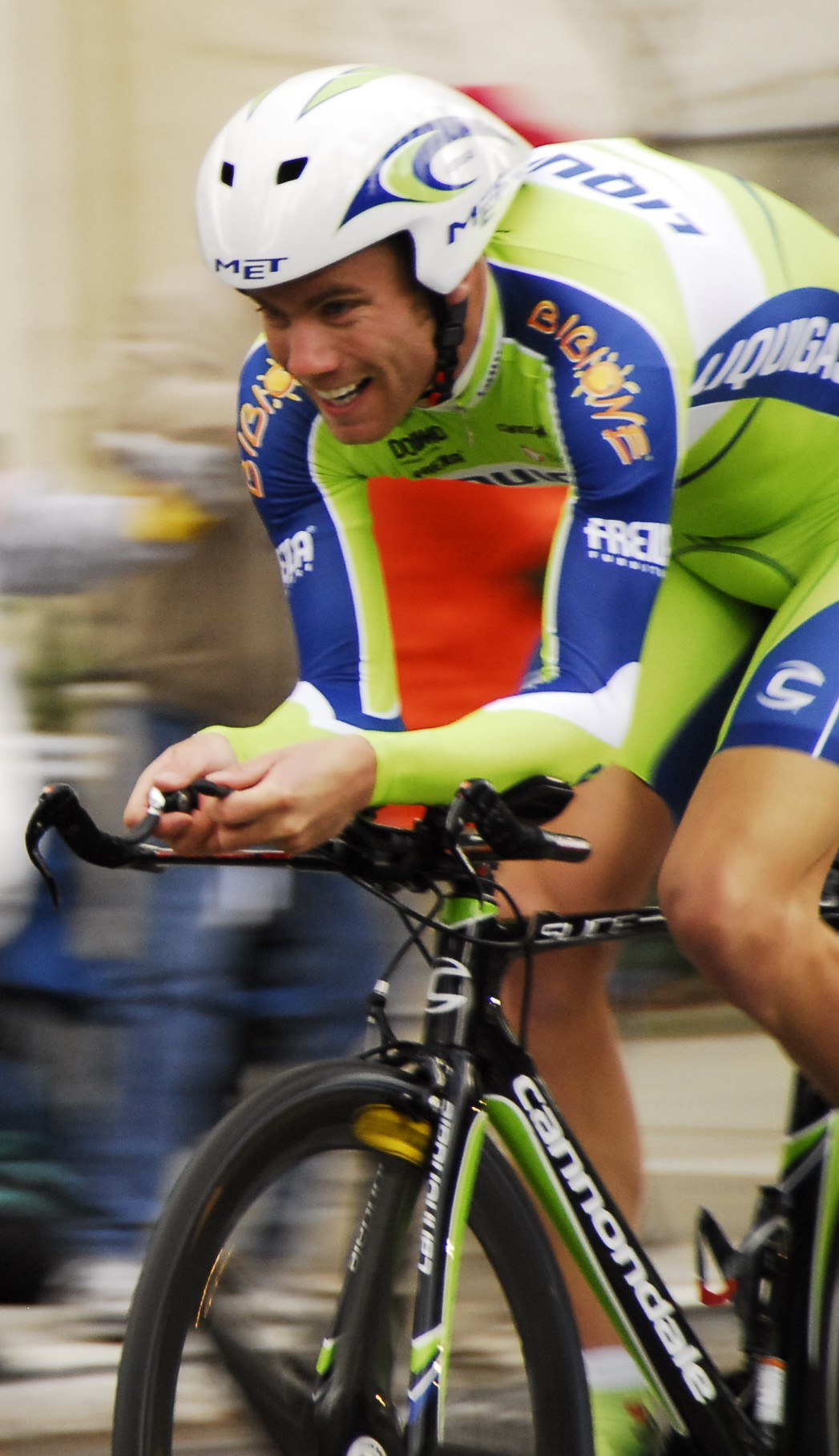 Brian Vandborg, Tour of California 2009